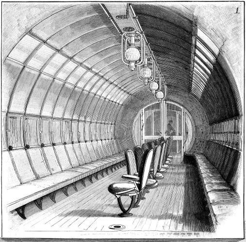 Illustration of the interior of the passenger cab of the experimental Meigs monorail train, print published by Scientific American on July 10, 1886